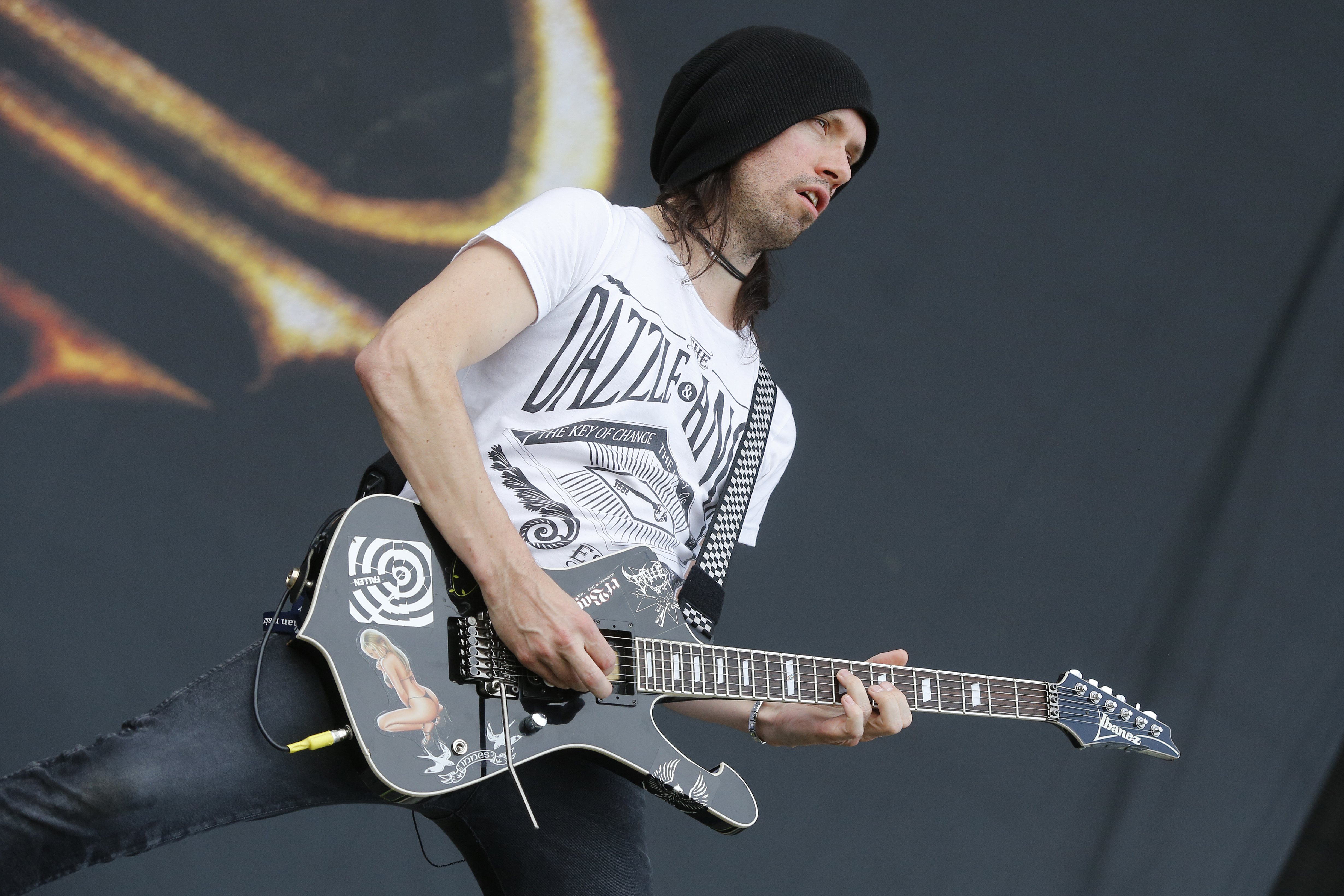 Sam Totman, guitarist and producer of DragonForce at Nova Rock-Festival 2013.